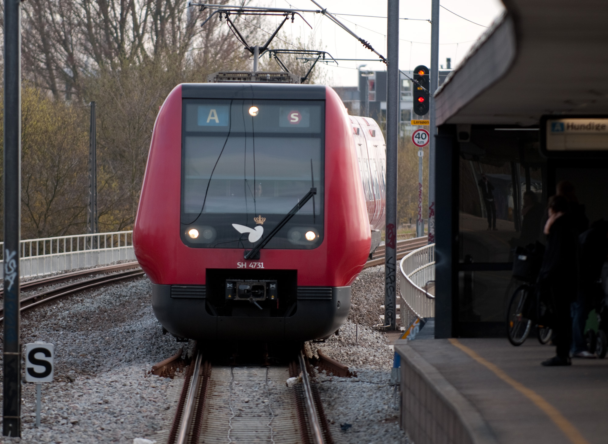 An S-train photographed directly from front as it arrives at Ryparken Station in Copenhagen